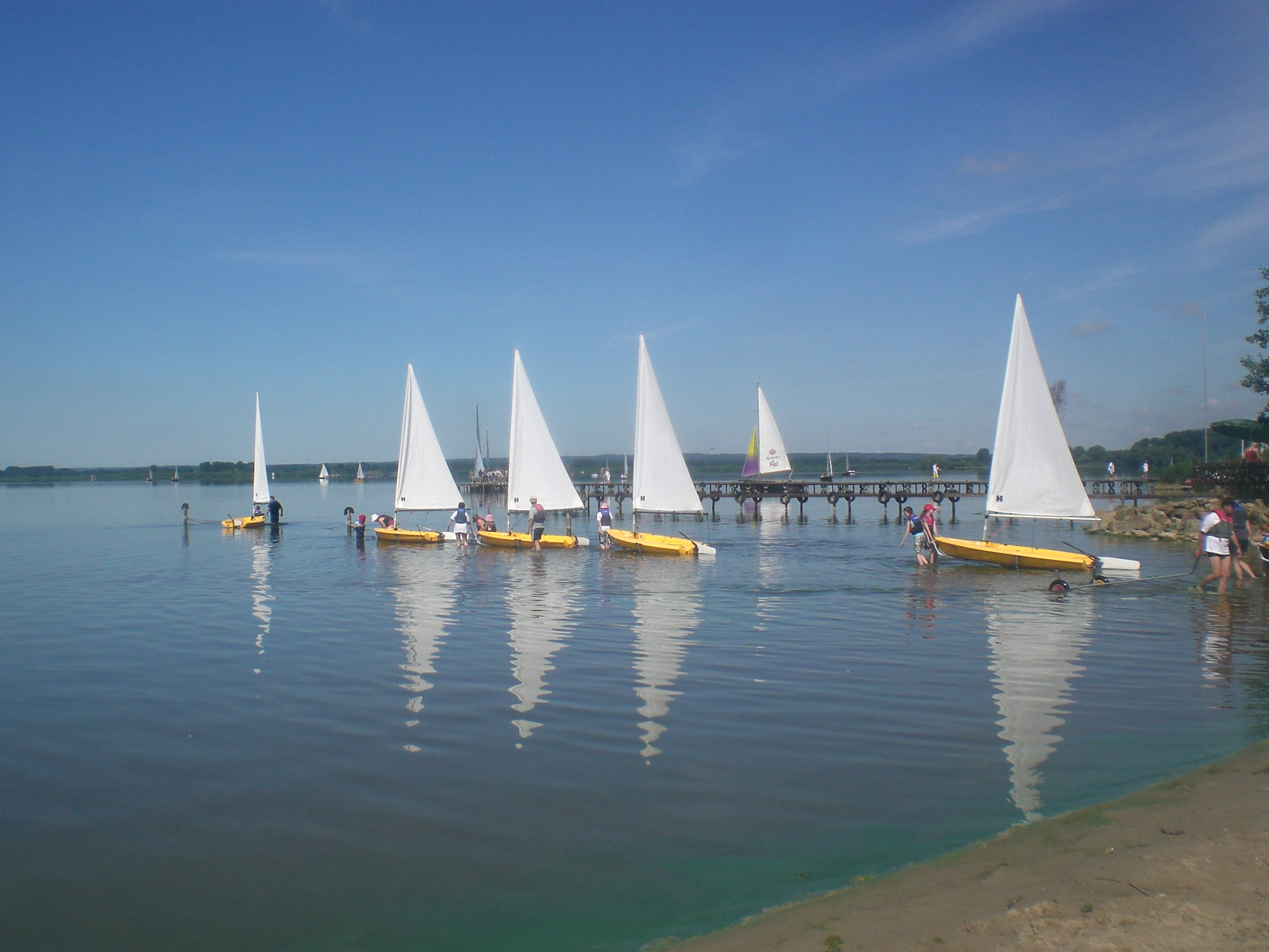 sailboats entering the lake Dümmer in northern Germany